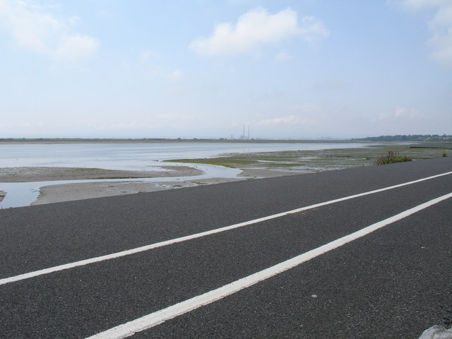 Sutton Strand Looking across the mudflats to North Bull Island and the twin-chimneys of the Ringsend Electricity Generating Station, the white lines signify a cycle train from the City to Howth.